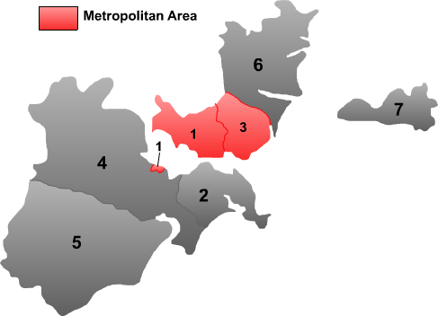 Map of Shantou in Guangdong province.